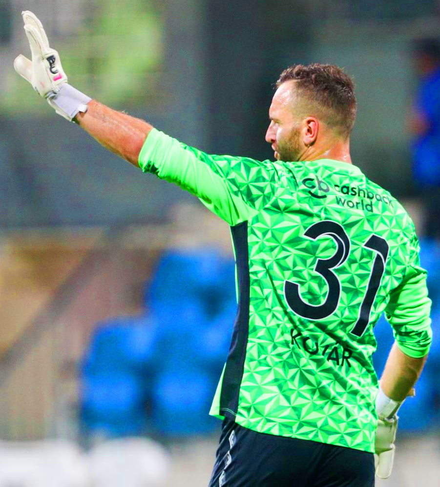 25.01.2018. Объединенные Арабские Эмираты, Дубай, «Мактум ибн Рашид Аль-Мактум». «Газпром»-тренировочные сборы в Дубае: товарищеский матч «Зенит» — «Славия».